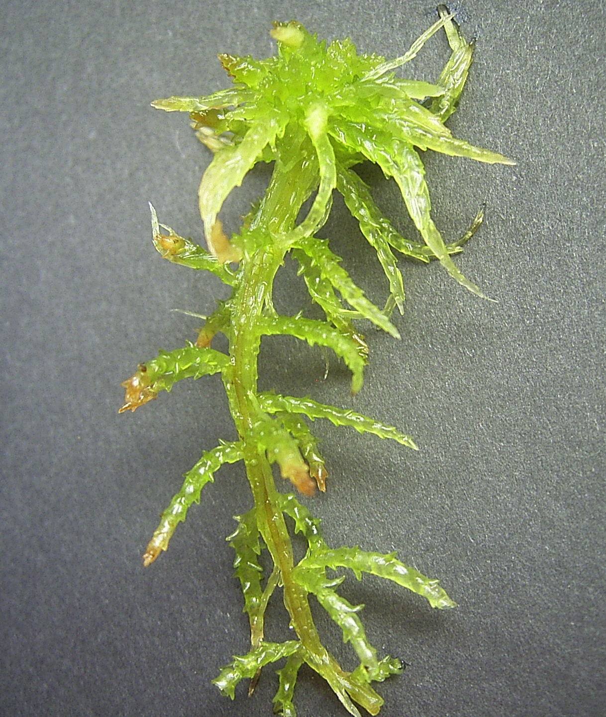 Sphagnum sp. Author: Denis Barthel